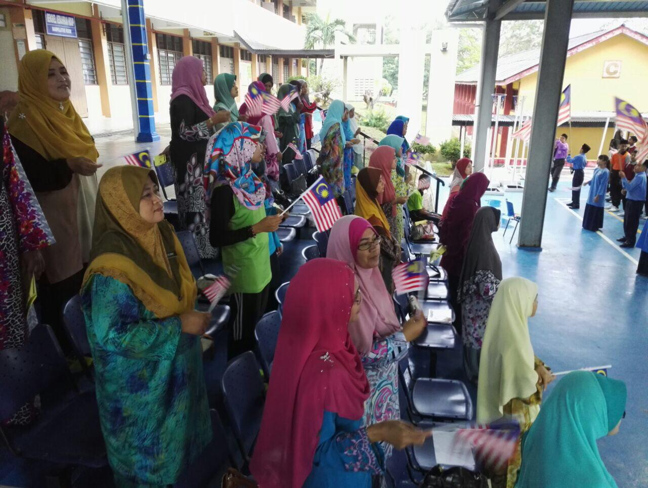 Semua Guru SKKT 1